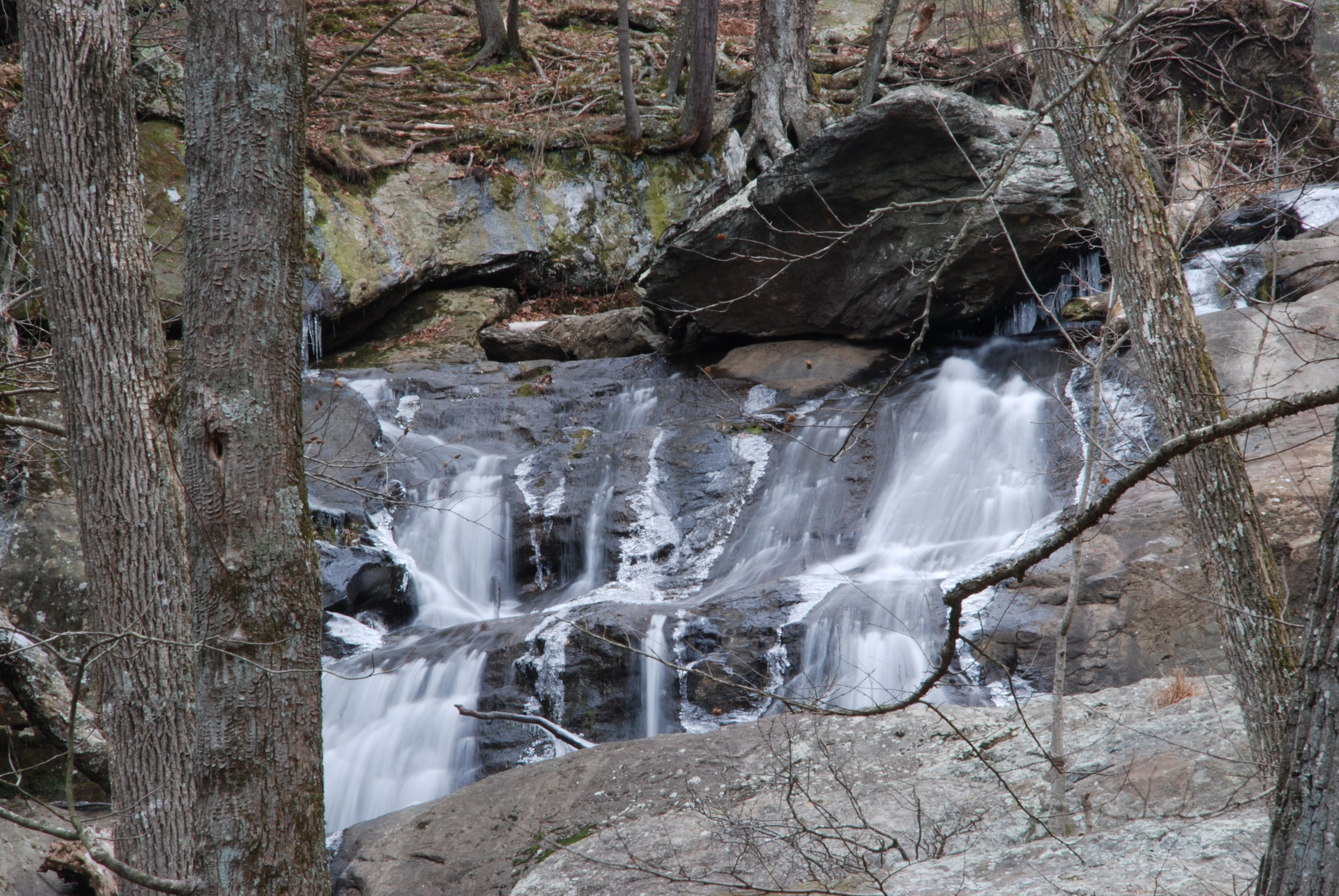 Tagalog: This is a picture of Cunningham Falls at Catoctin Mountain Park in Thurmont, MD.